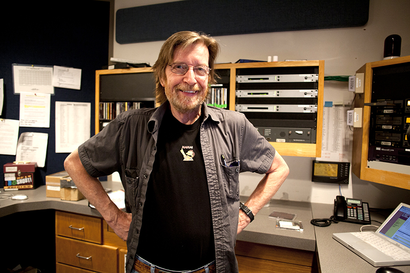 Larry Monroe, a DJ at Austin's NPR station for nearly 30 years, poses in the control room of the station, KUT-FM.